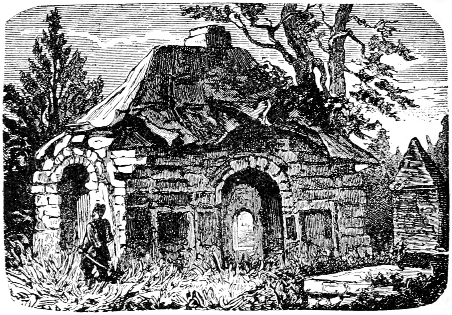 Ruin of Mazepas home in Baturyn (from mid 19th century) Illustration in Alfred Jensens "Mazepa", page 124.